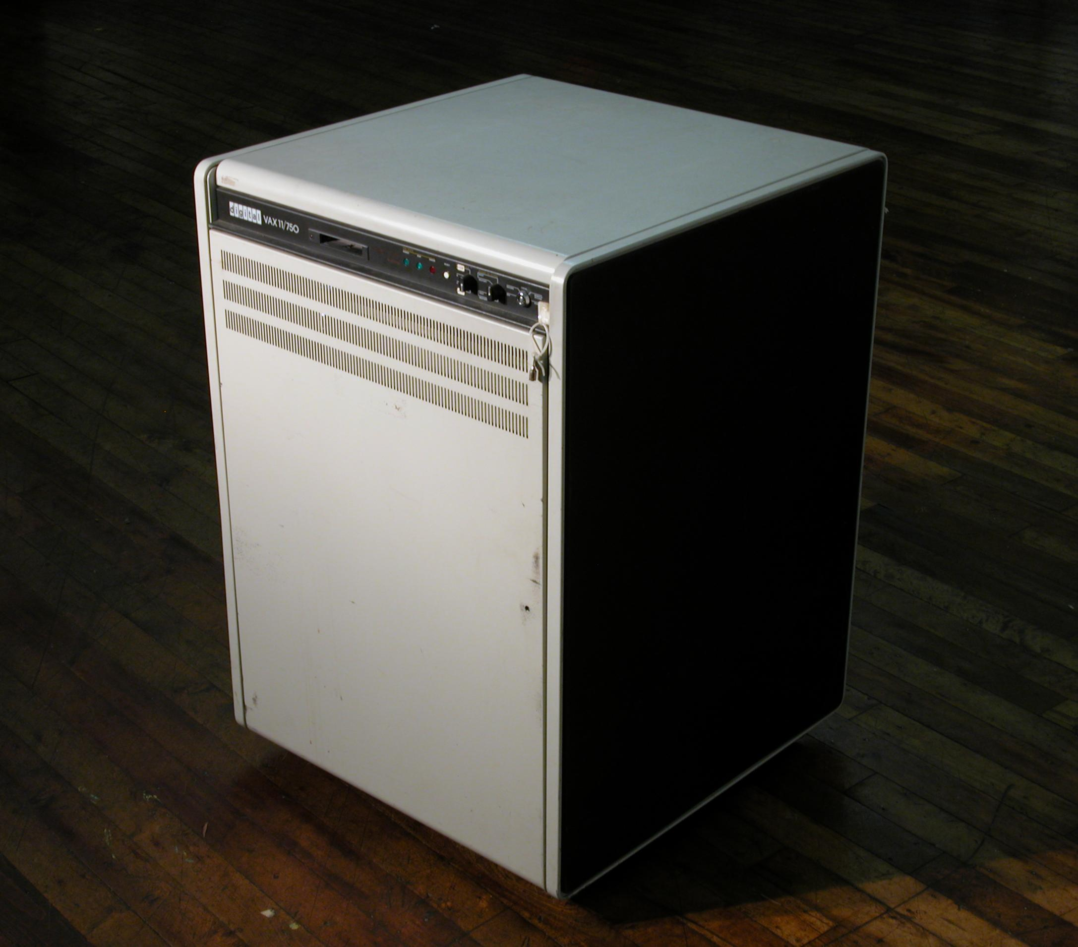 VAX-11/750 minicomputer. From the collection of the RCS/RI.